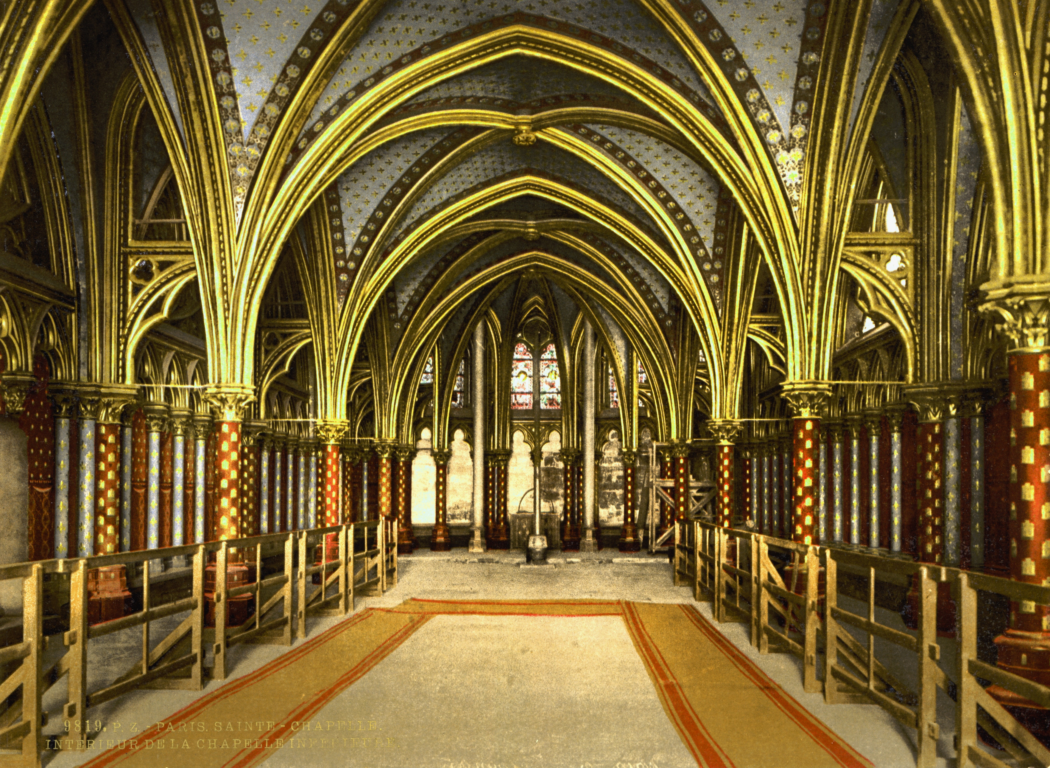 The Holy Chapel, interior of lower chapel, Paris, France.